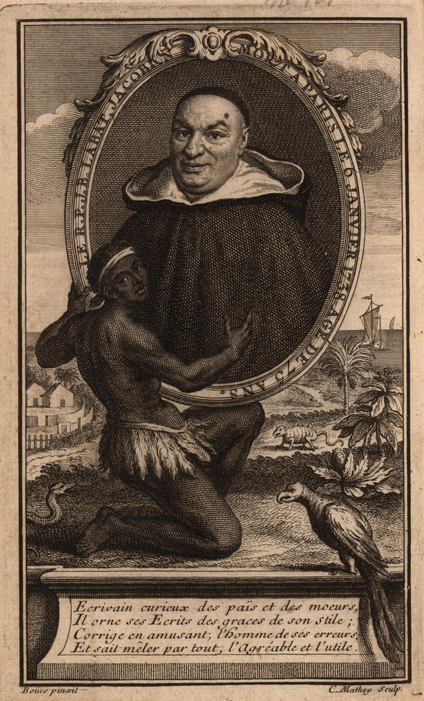 Portrait of Jean-Baptiste Labat (1663-1738), a French explorer and historian. Engraving derived from Labat's work, Nouveau voyage aux isles de l'Amerique (1742)